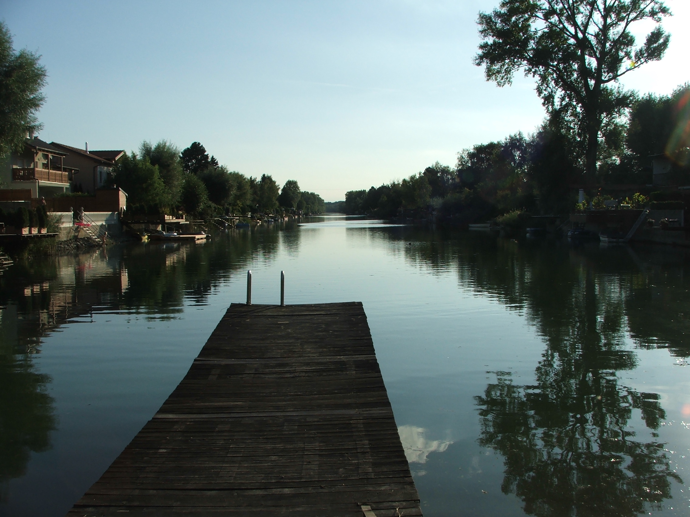 Another completed part of Donau - Oder canal